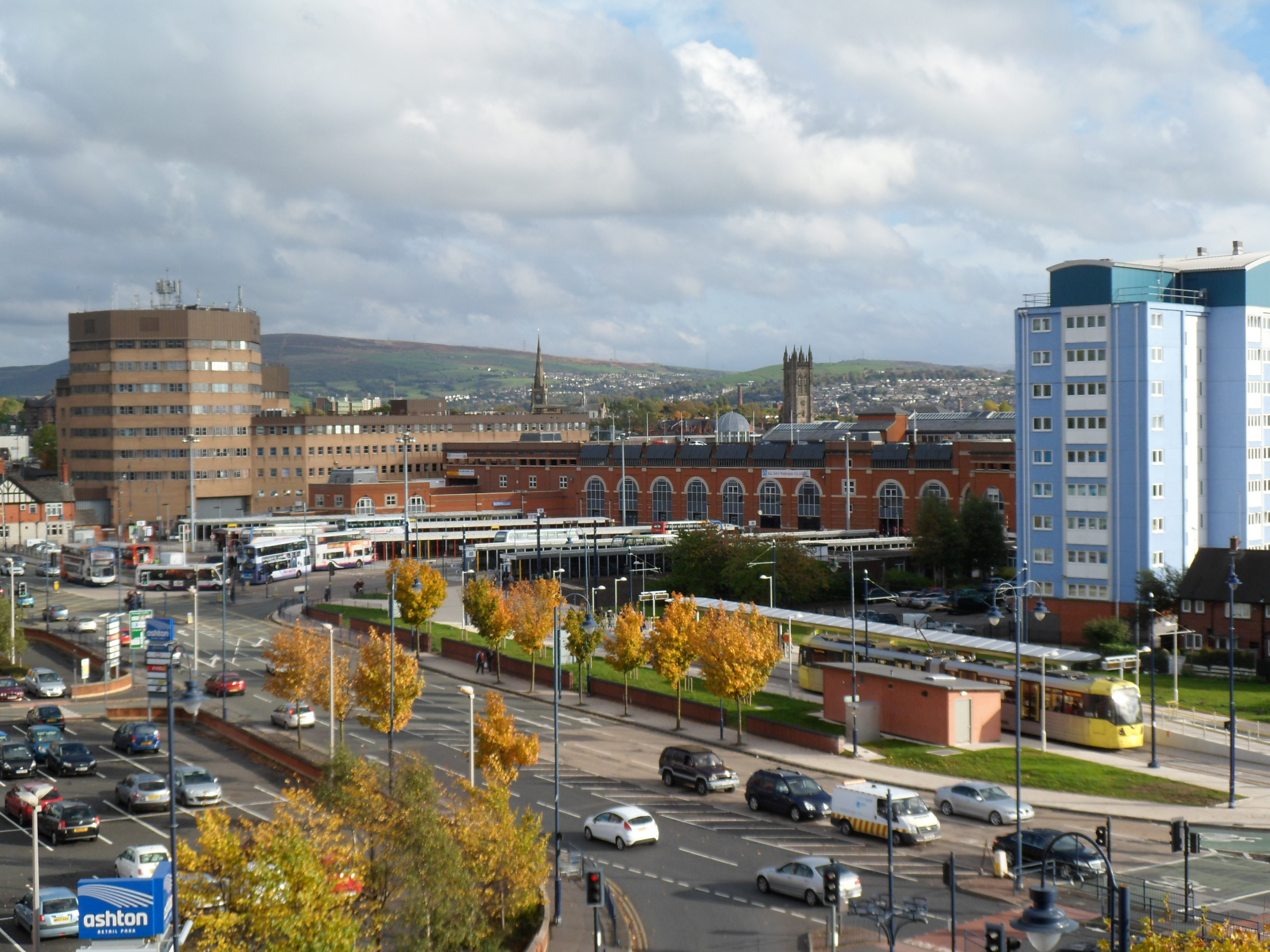 Ashton-under-Lyne in Greater Manchester, England: view on Tameside Council Offices (building demolished in Summer 2016), new Metrolink station and bus station. Picture was taken from IKEA Manchester.